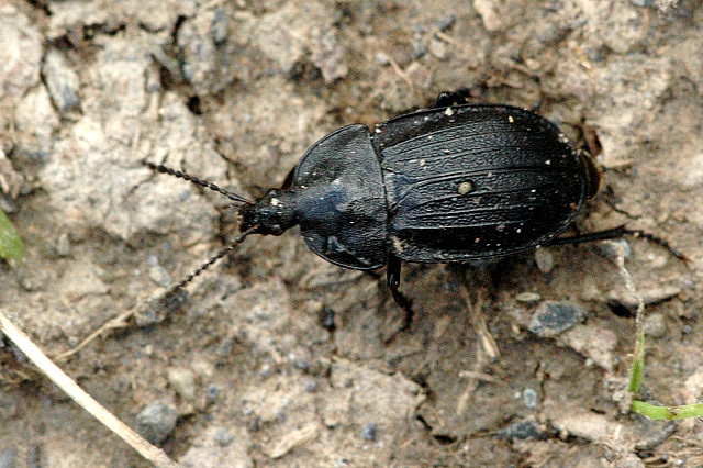 Picture taken in Commanster, Belgian High Ardennes . Species: Silpha tristis